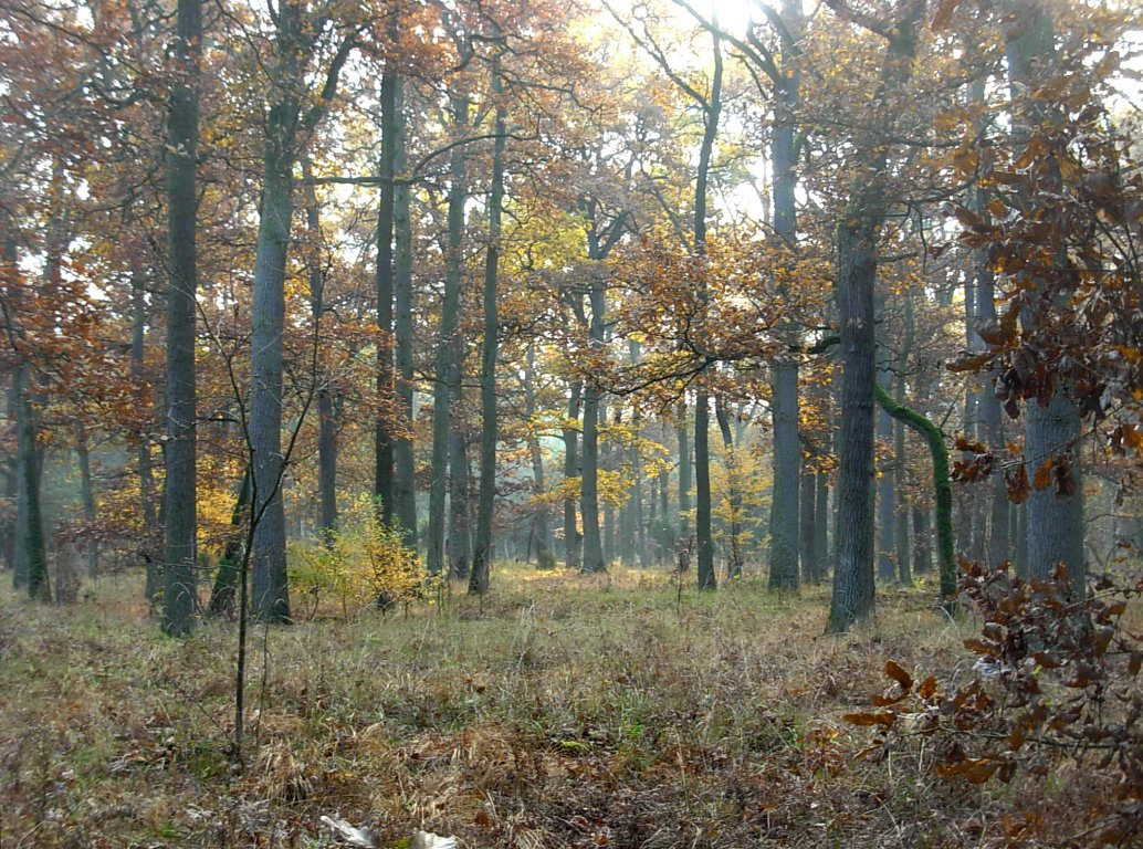 Nature reserve Dziki Ostrów